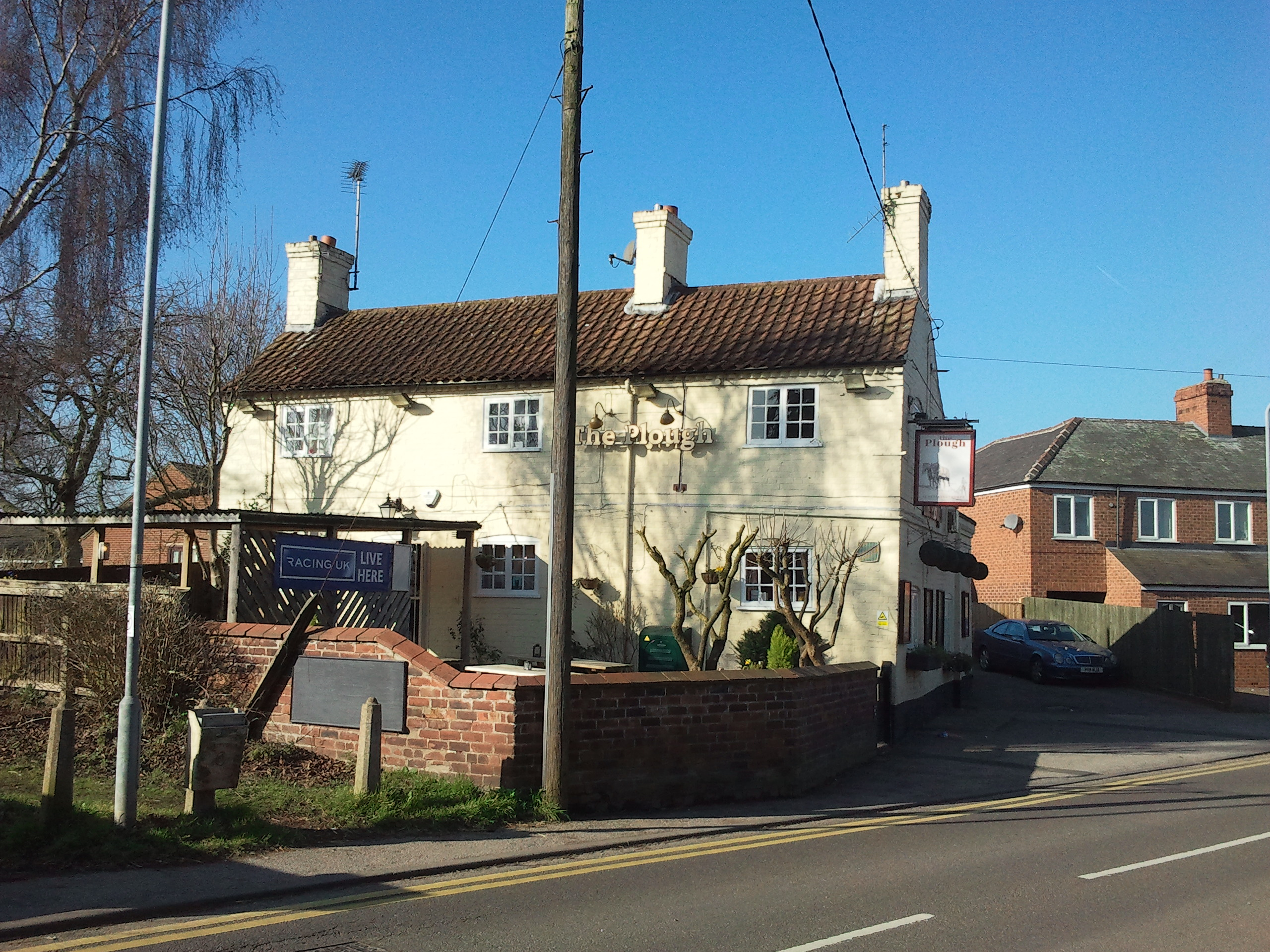 Photo of the Plough Inn, Skellingthorpe